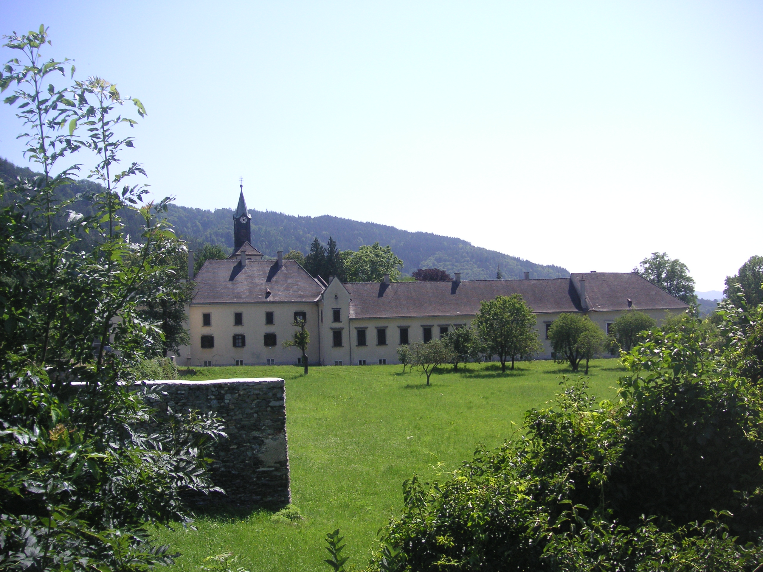 The Schloss Waldstein in Deutschfeistritz, Styria, Austria